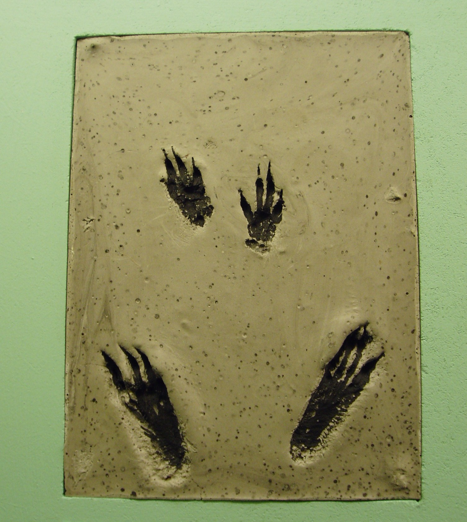 Red squirrel (Sciurus vulgaris), footprint, Gothenburg museum of natural history